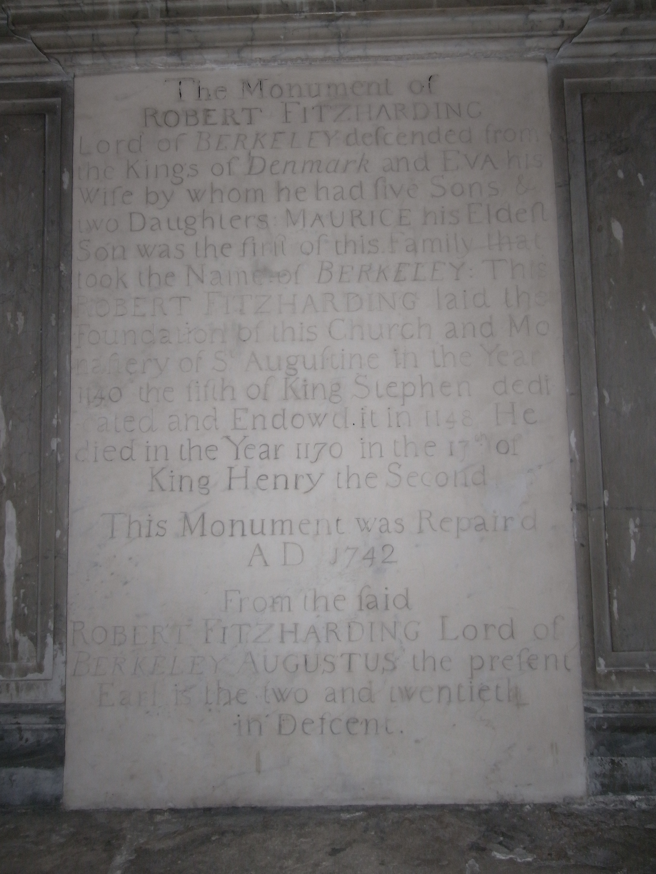 Marble mural monumental tablet erected 1742 to Robert FitzHarding, 1st feudal baron of Berkeley(d.1170), in the Lady Chapel, St Augustine's Abbey (Bristol Cathedral). The tablet appears to serve as an explication (erroneously) of the adjacent tomb-chest of a knight and lady in 14th. c. armour & costume labelled on 19th.c brass plaque affixed to the plinth as depicting Maurice de Berkeley, 9th Baron Berkeley(d.1368) and his mother. The text of the marble tablet contains details now proved erroneous concerning his ancestry. Text: "The monument of Robert FitzHarding Lord of Berkeley descended from the Kings of Denmark and Eva his wife by whom he had five sons & two daughters. Maurice his eldest son was the first of this family that took the name of Berkeley. This Robert FitzHarding laid the foundation of this church and monastery of St Augustine in the year 1140 the fifth of King Stephen, dedicated in the year 1170 in the 17th of King Henry the Second. This monument was repaired AD 1742. From the said Robert FitzHarding Lord of Berkeley, Augustus the present Earl is the two and twentieth in descent".